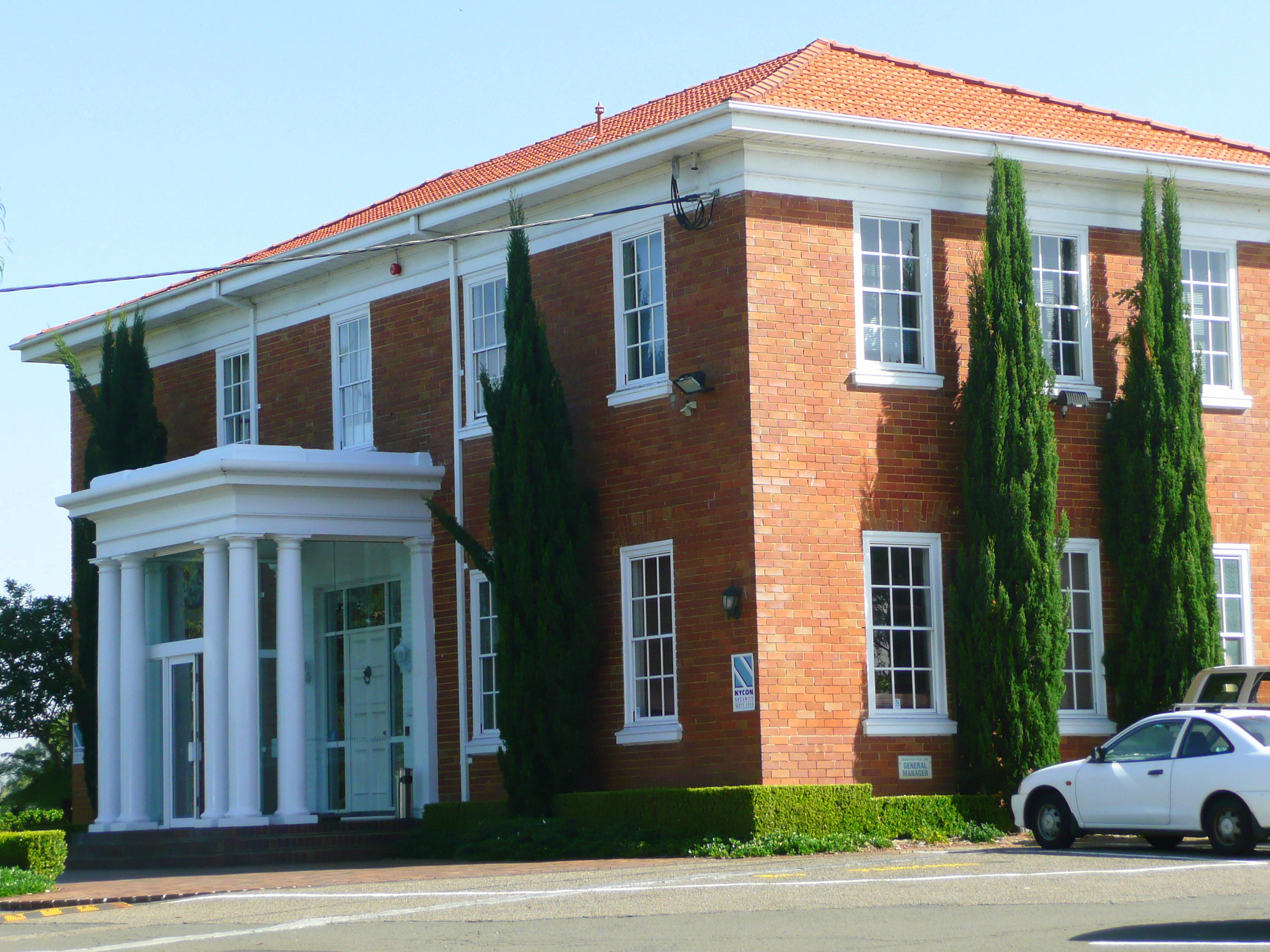 Bonnie Doon Golf Course, Pagewood, Sydney